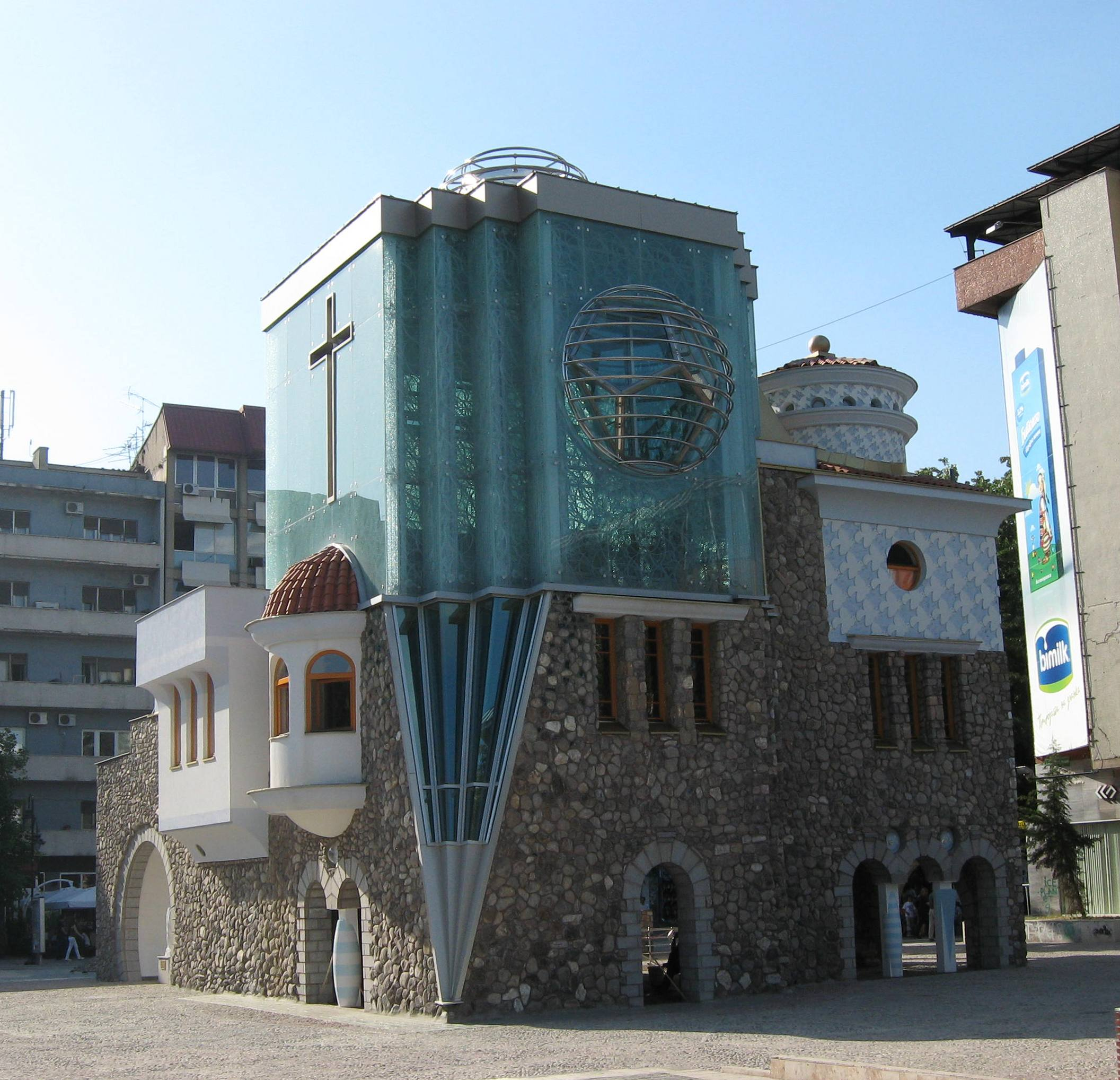 Mother Theresa memorial house, Skopje